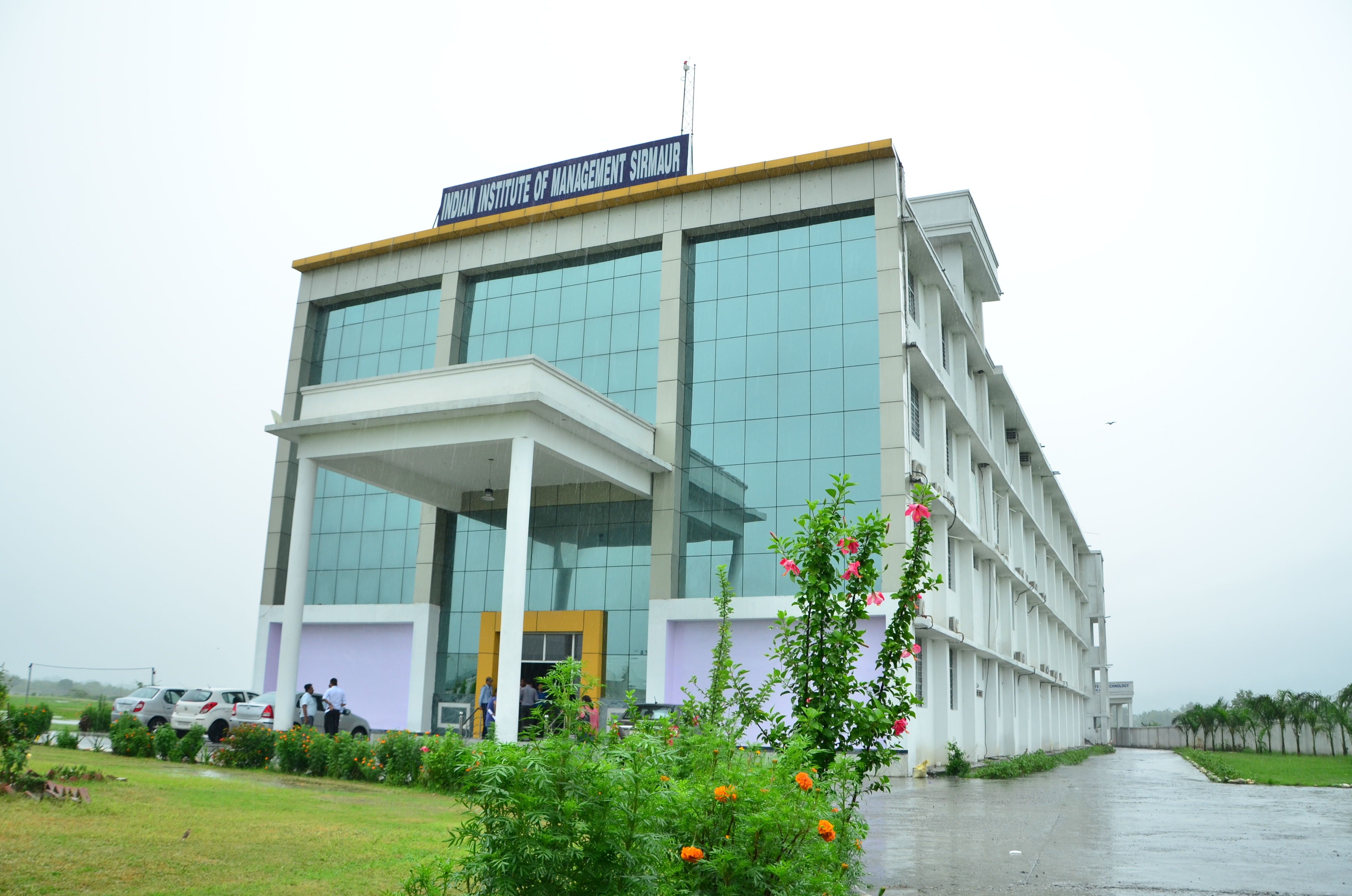 IIM Sirmaur Campus